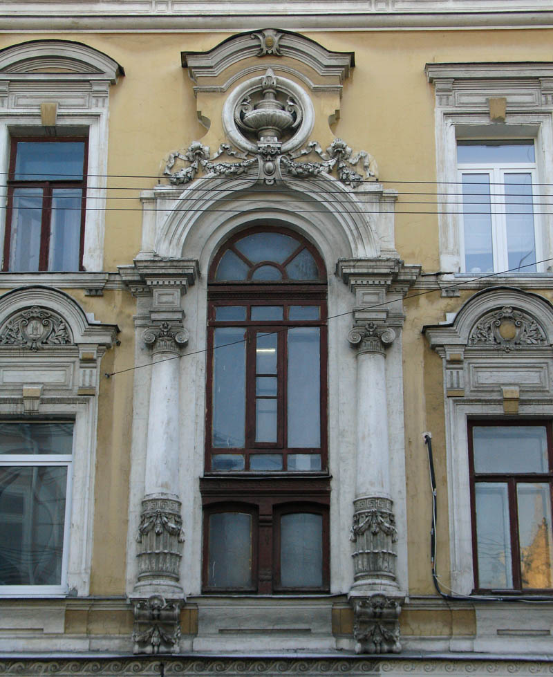 10, Chaplygina St, Moscow